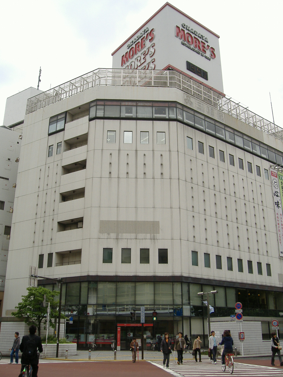 Kawasaki_Okadaya-MORE'S Department store(Kawasaki, Japan)